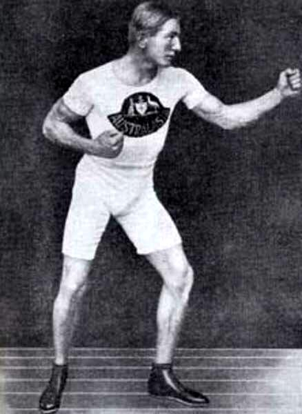 A photograph of Reginald Baker ("Snowy" Baker) showing his boxing stance.